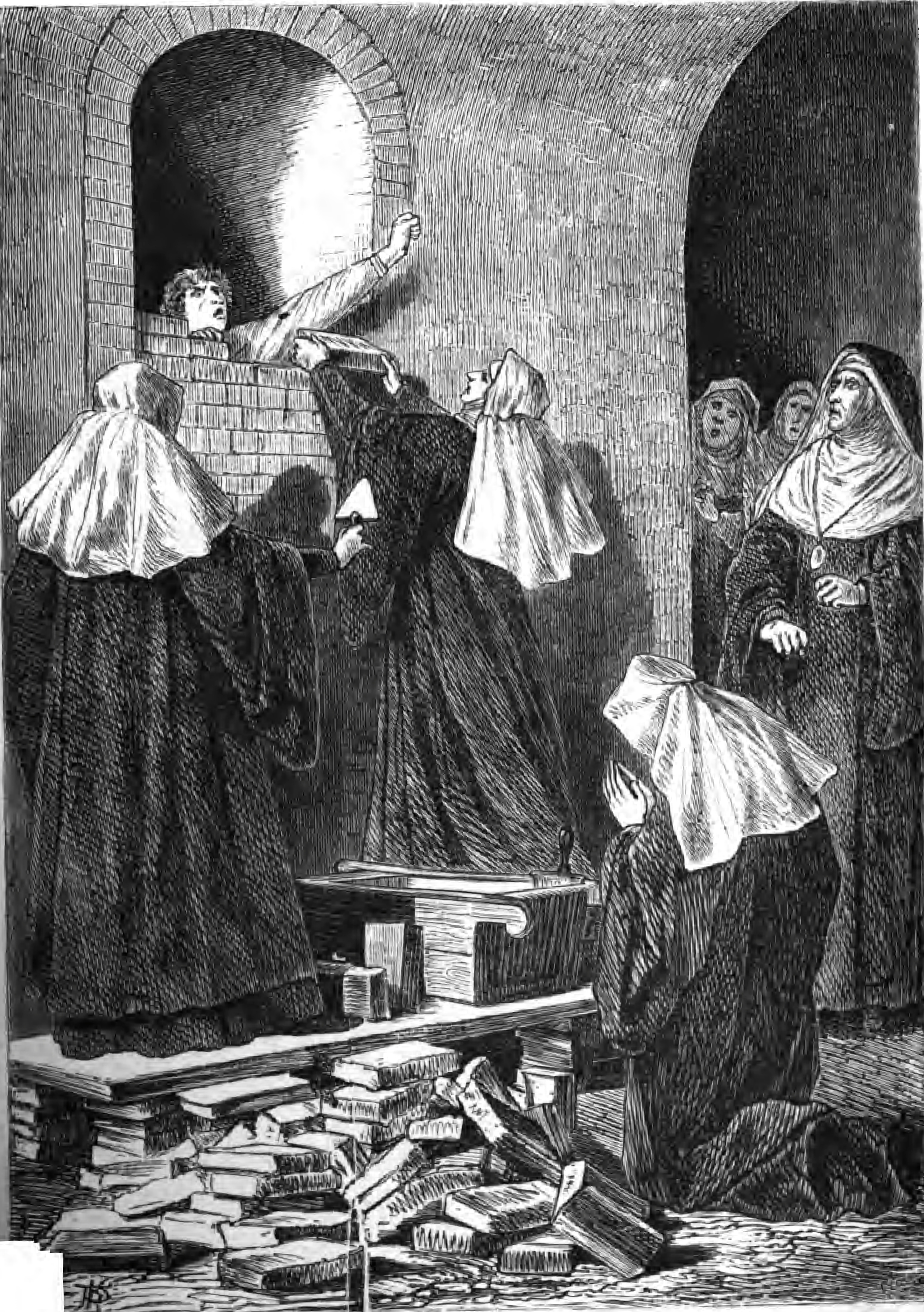 Title: The immured nun